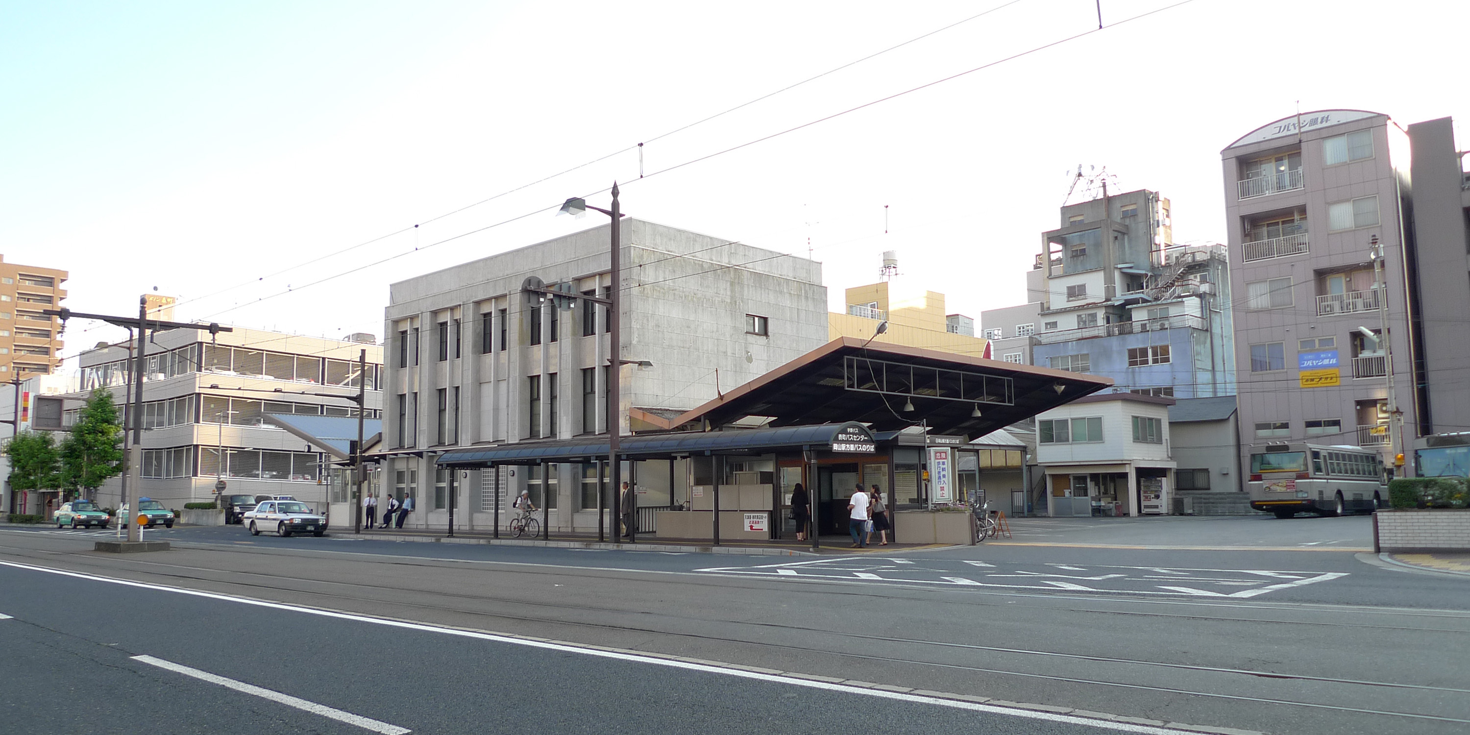 Omote-cho Bus terminal.